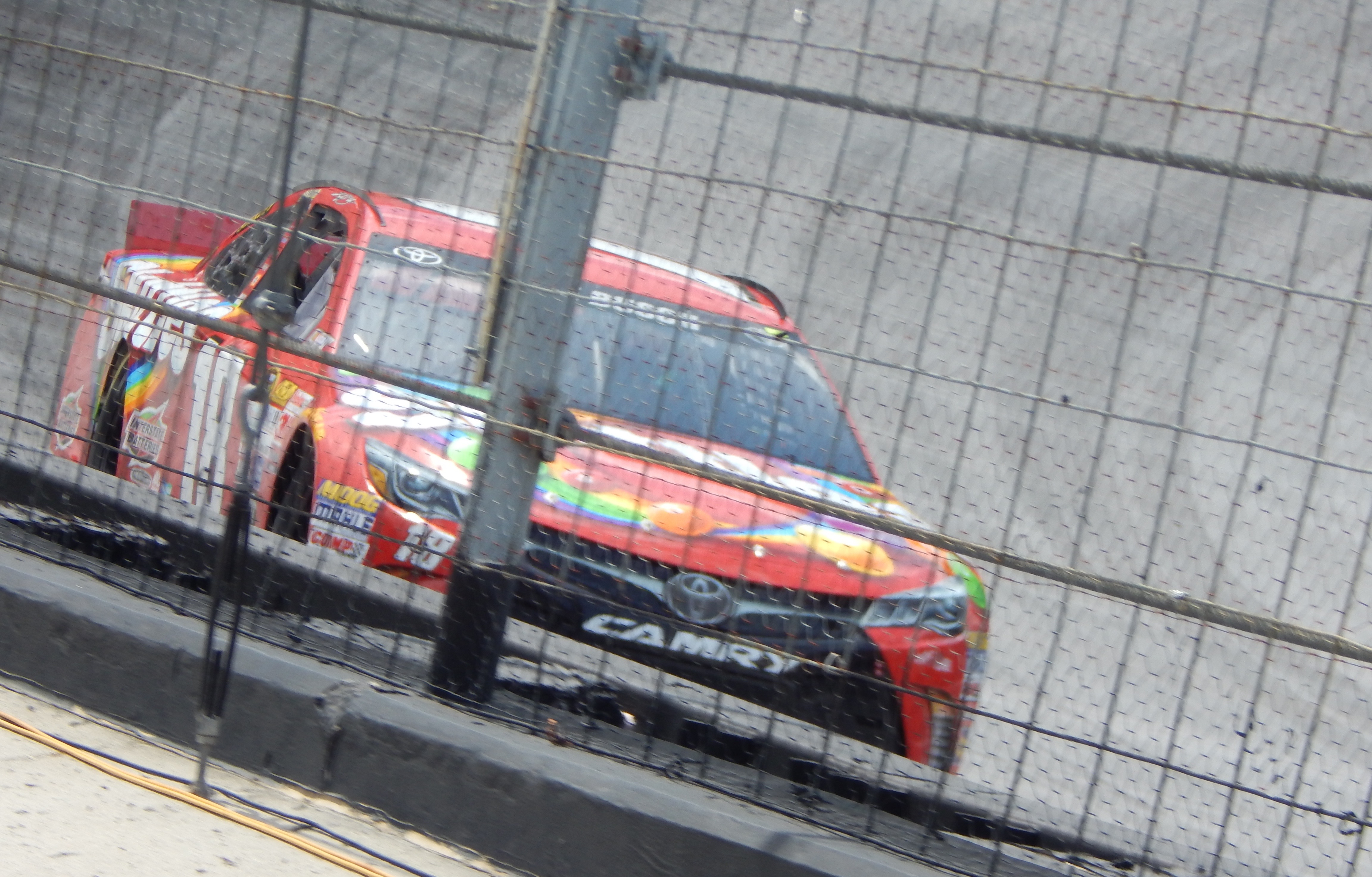 Kyle Busch was the fastest in the final practice session for the 2015 Irwin Tools Night Race at Bristol Motor Speedway.